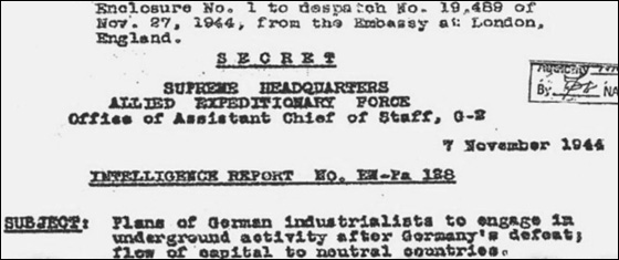 Top of the first page of The Red House Report now declassified by US Military Intelligence